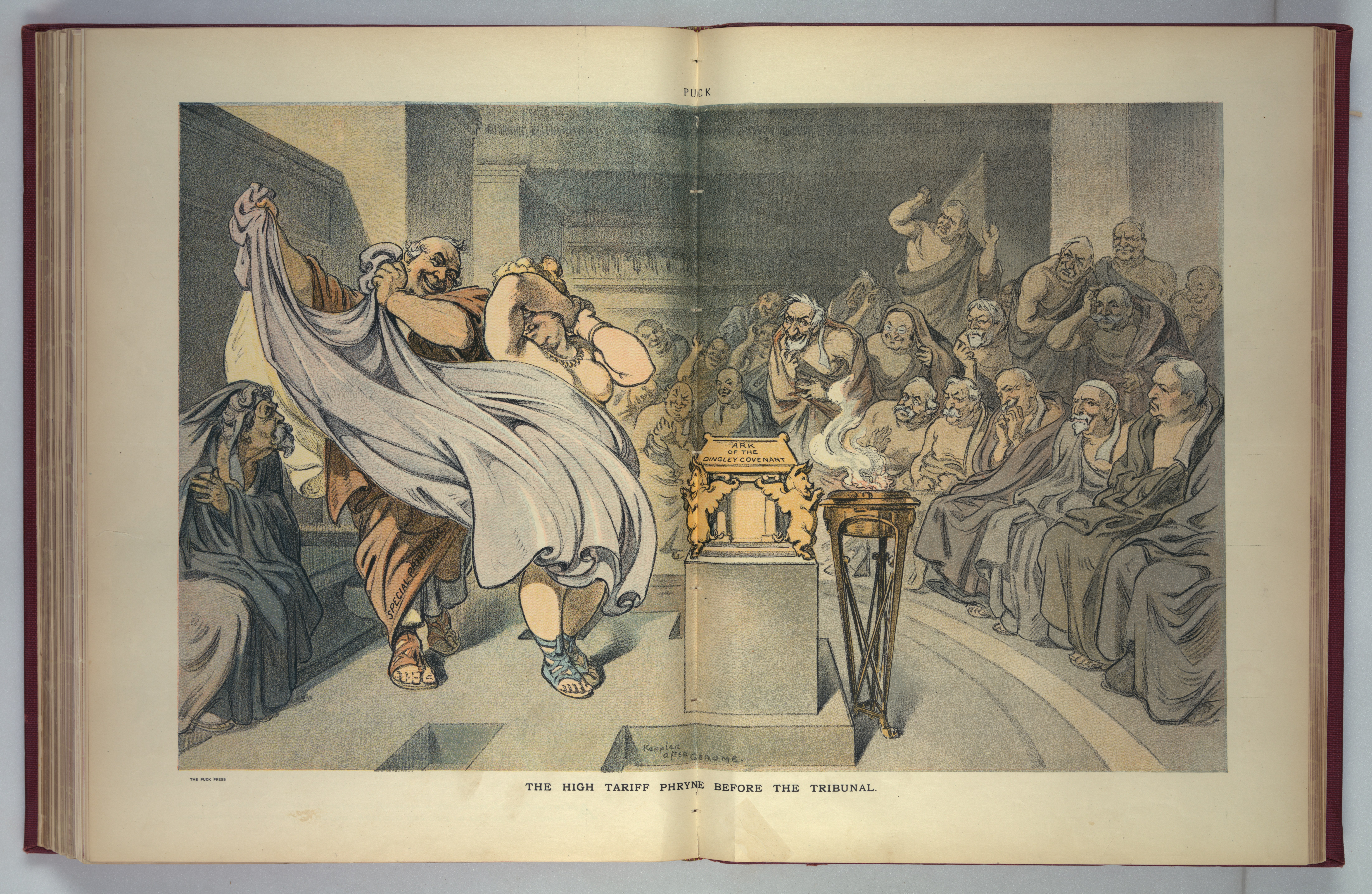 Title: The high tariff Phryne before the tribunal / Keppler after Gerome. Abstract/medium: 1 photomechanical print : offset, color.